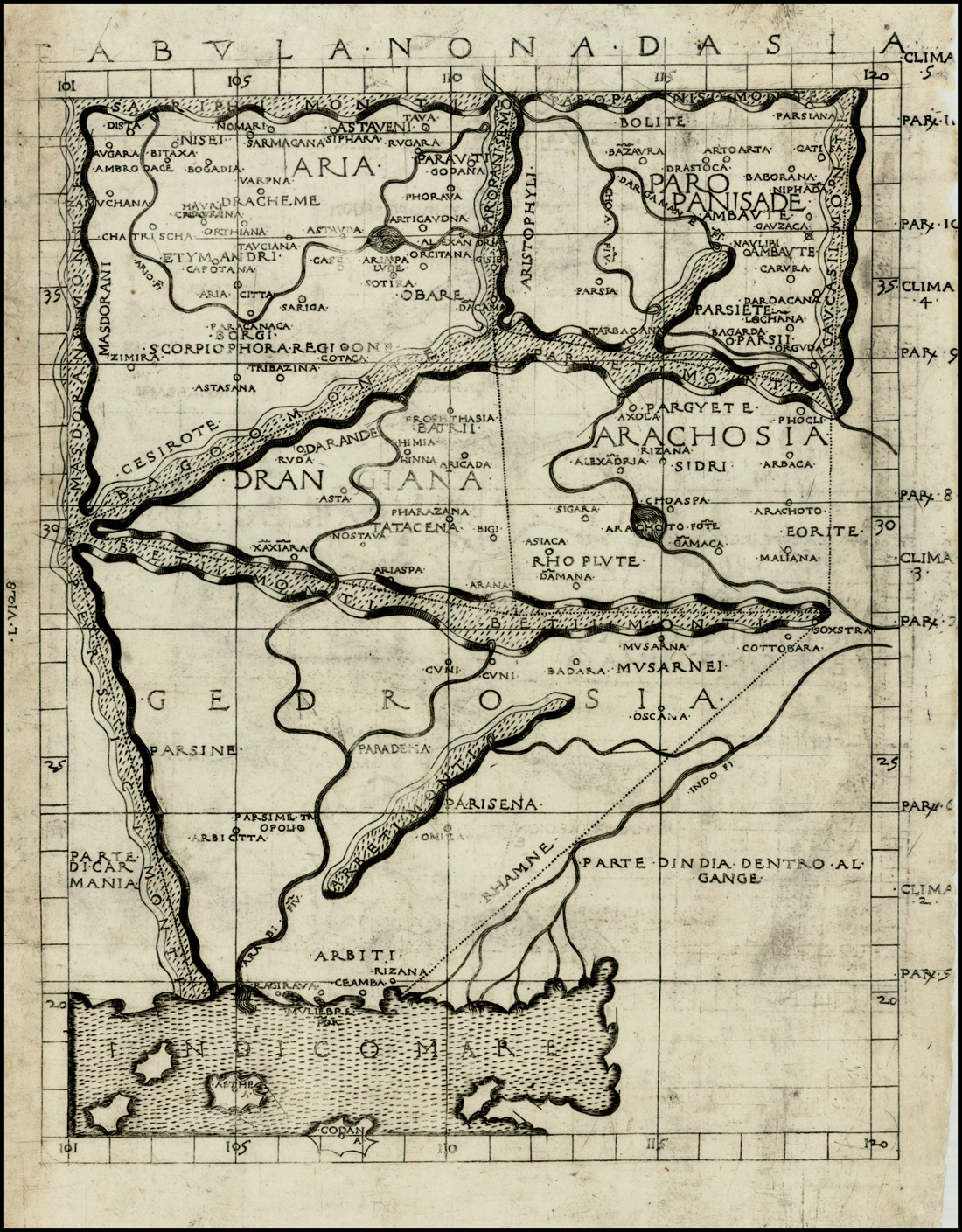 The Ninth Asian Map (Tabula Nona d'Asia), depicting the ancient regions of Pakistan, from Seven Days of Geography